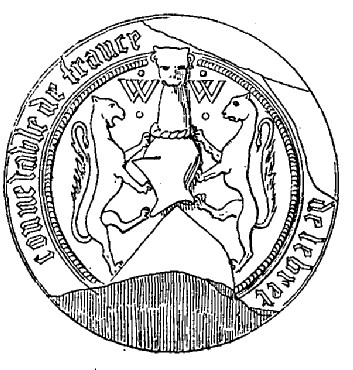 Charles d'Albret